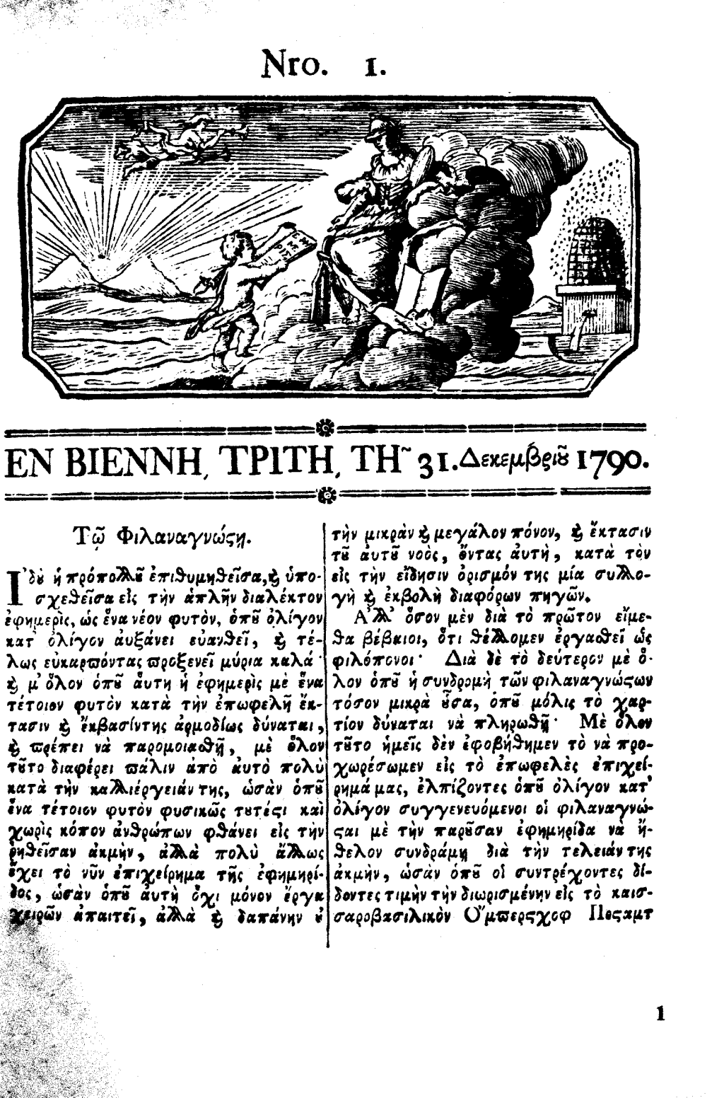 First page of Greek paper "Ephemeris", published in Vienna